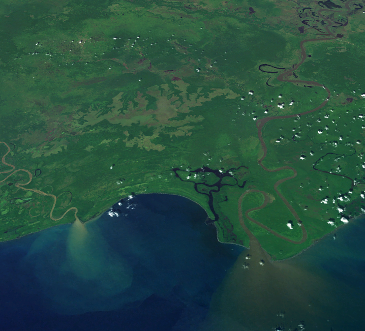 NASA World Wind image of the Sepik and Ramu